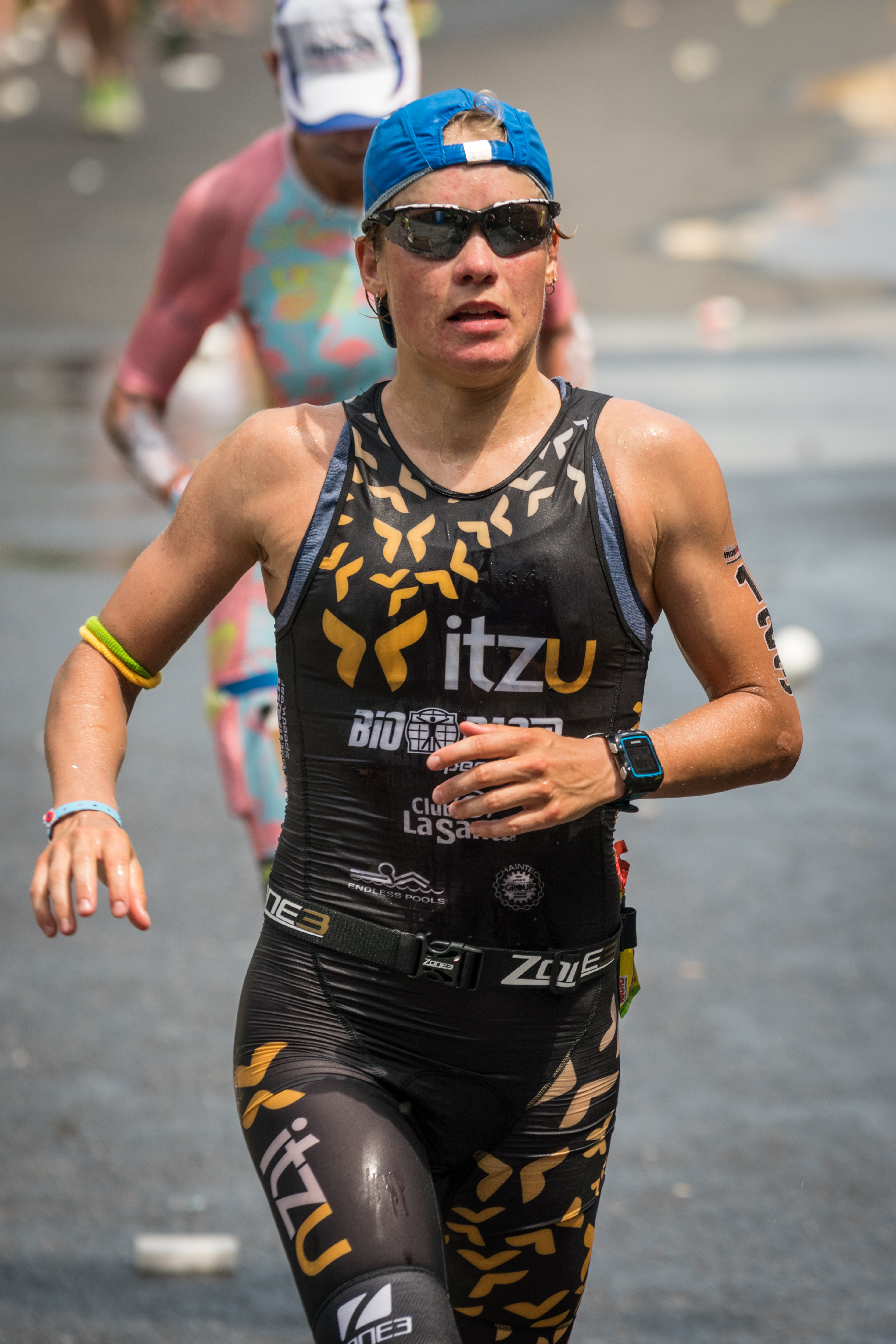 Third female Alexandra Tondeur at the 2017 Ironman European Championship in Frankfurt am Main (Germany).